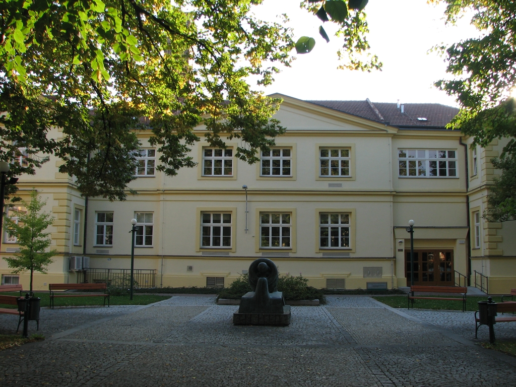 Faculty of Science - Masaryk University, Brno